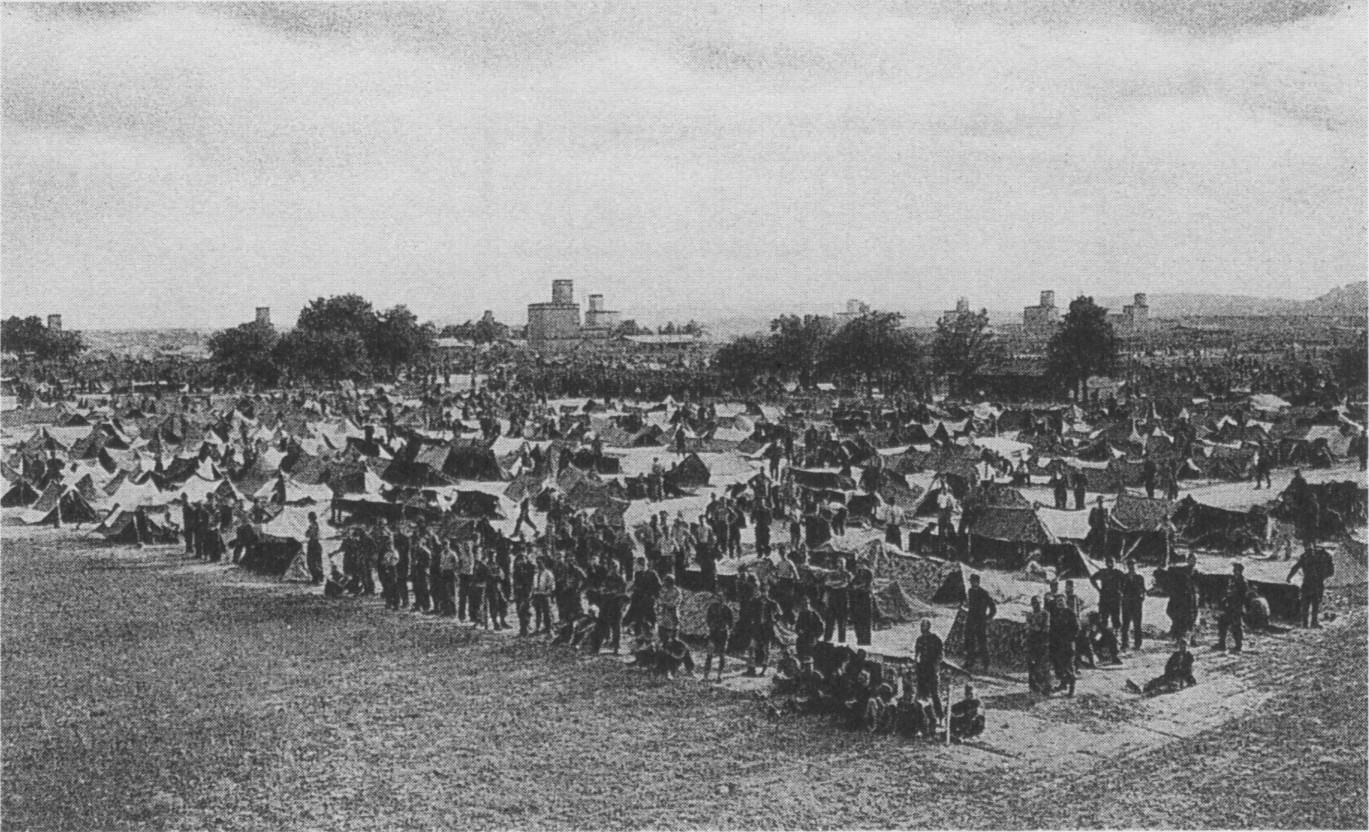 The American POW camp PWTE C-3 in Heilbronn, Germany, ca. May or June 1945